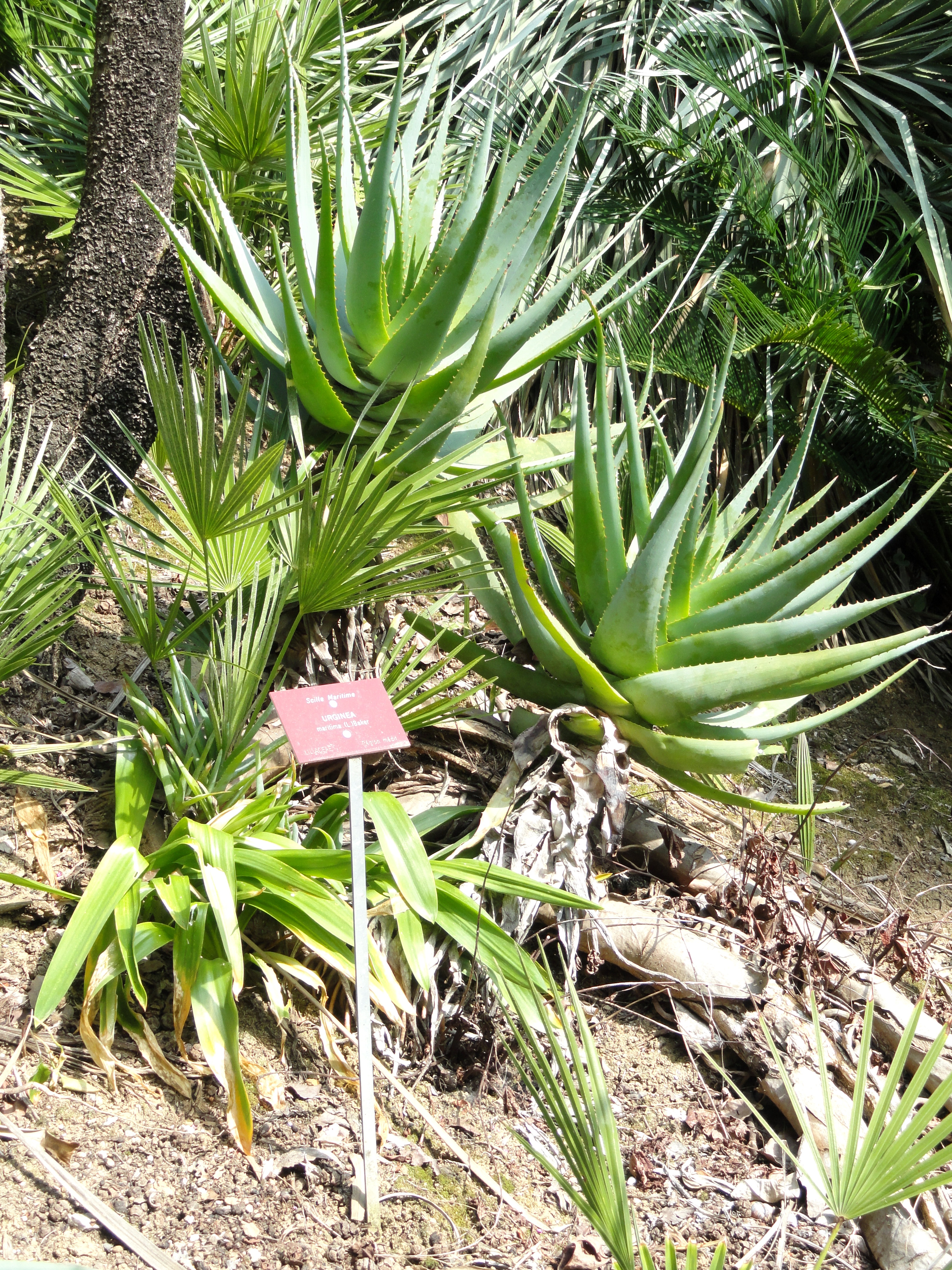 Urginea maritima specimen in the Jardin botanique du Val Rahmeh, Menton, Alpes-Maritimes, France.